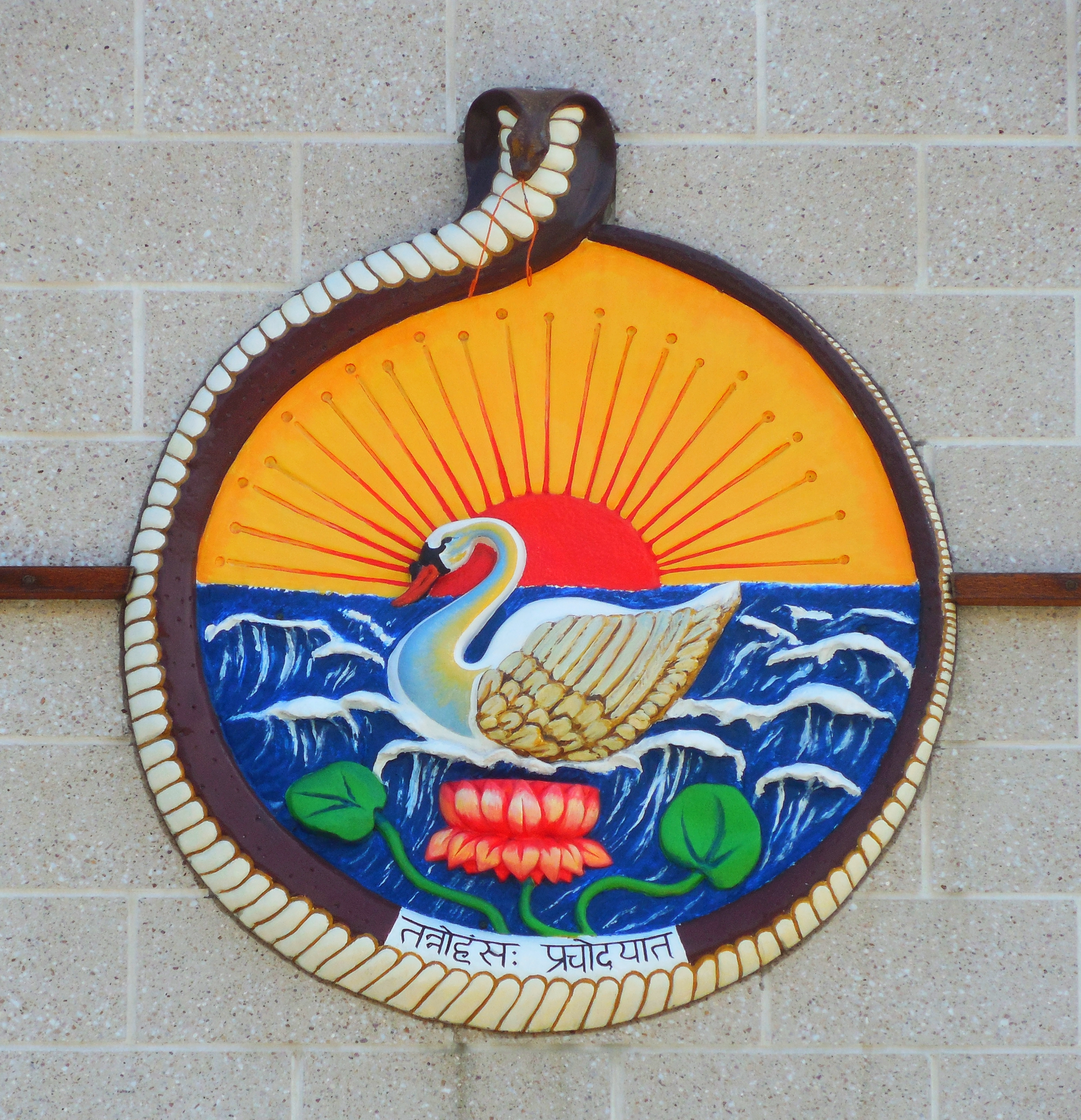 Emblem near the entrance of the Ramakrishna Society of Providence (Rhode Island), 2015. The emblem was designed by Swami Vivekananda, who explained the image as: "The wavy waters in the picture are symbolic of Karma; the lotus, of Bhakti; and the rising-sun, of Jnana. The encircling serpent is indicative of Yoga and the awakened Kundalini Shakti, while the swan in the picture stands for Paramatman (Supreme Self). Therefore, the idea of the picture is that by the union of Karma, Jnana, Bhakti and Yoga, the vision of Paramatman is obtained."[1][2]